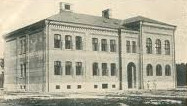 The school building of Alingsås samrelaskola